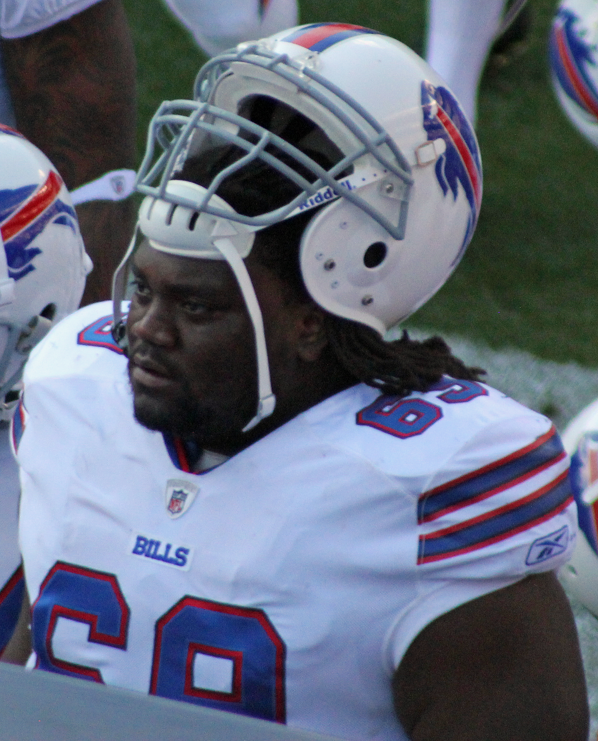 Michael Jasper, a player on the National Football League.